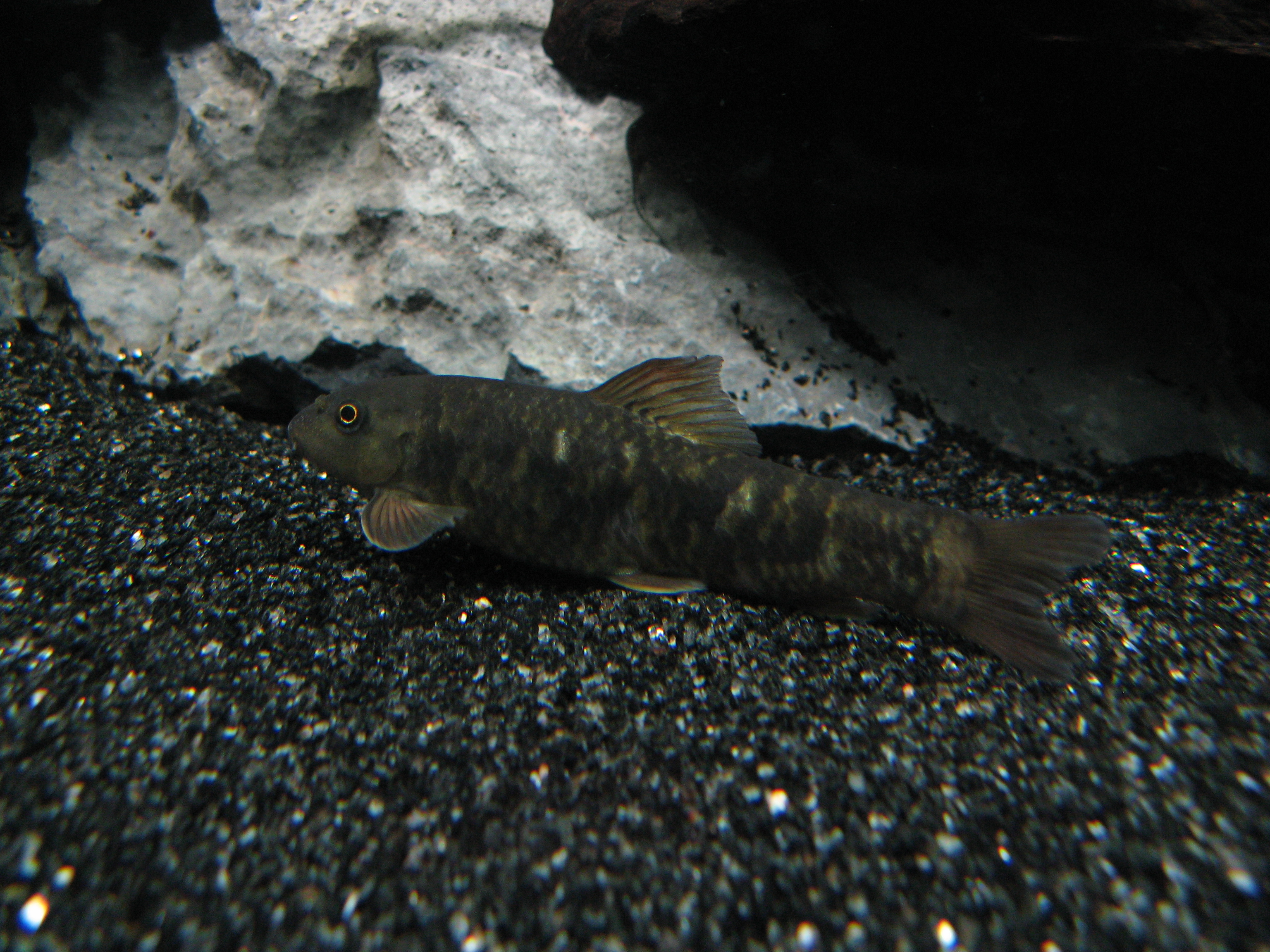 garra rufa